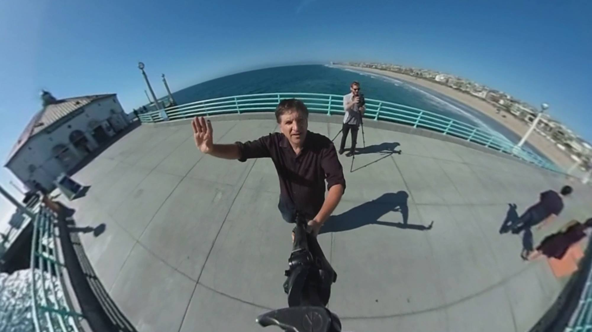 Jefferson Graham on the Manhattan Beach Pier, photographed on the Ricoh Theta 360 degree camera